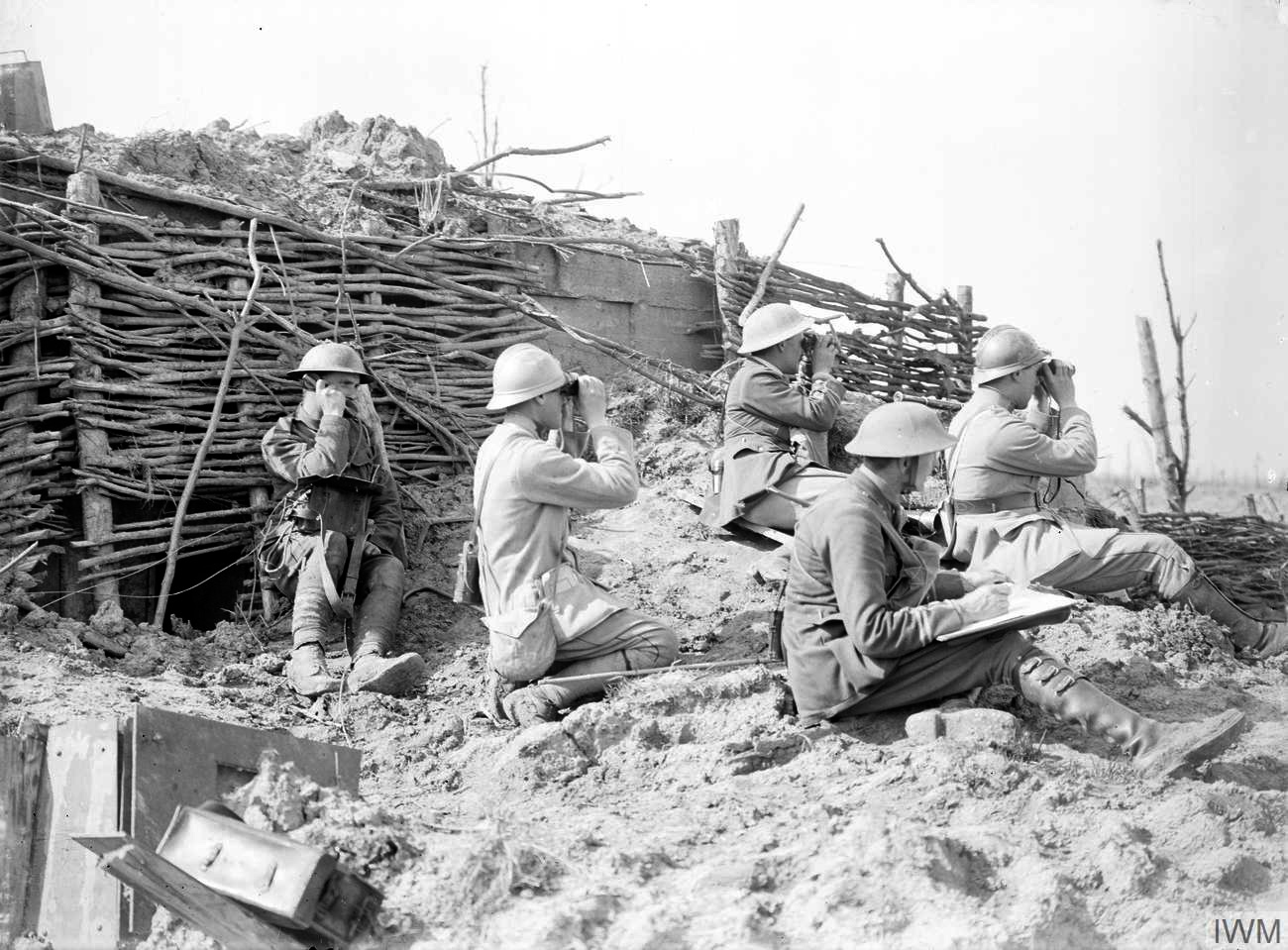 Battle of Langemarck, Belgium : British and French artillery forward observation officers, with British field telephonist, assist with the ranging in of the guns.